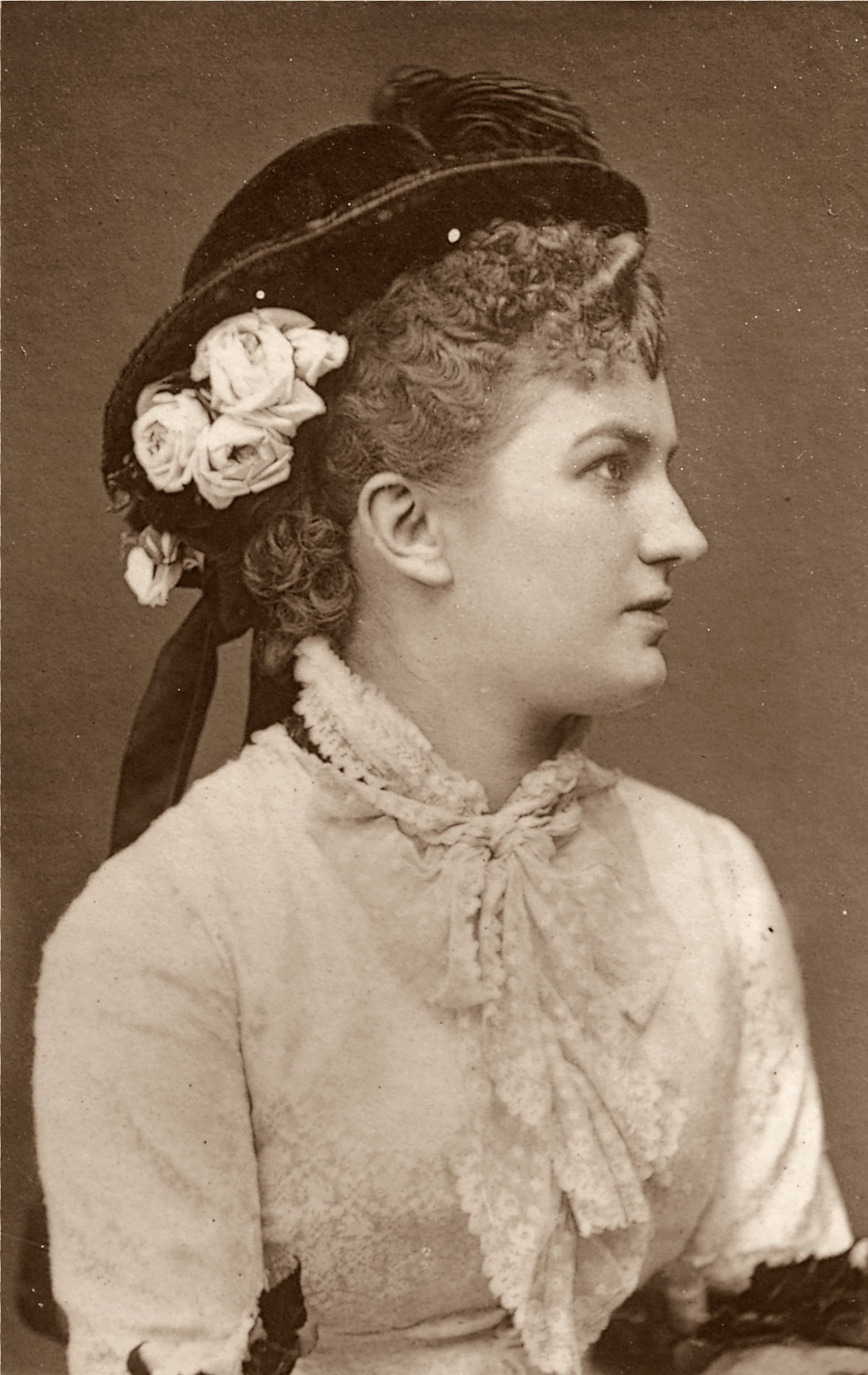 Nelly Bromley 1850-1939, English Actress.